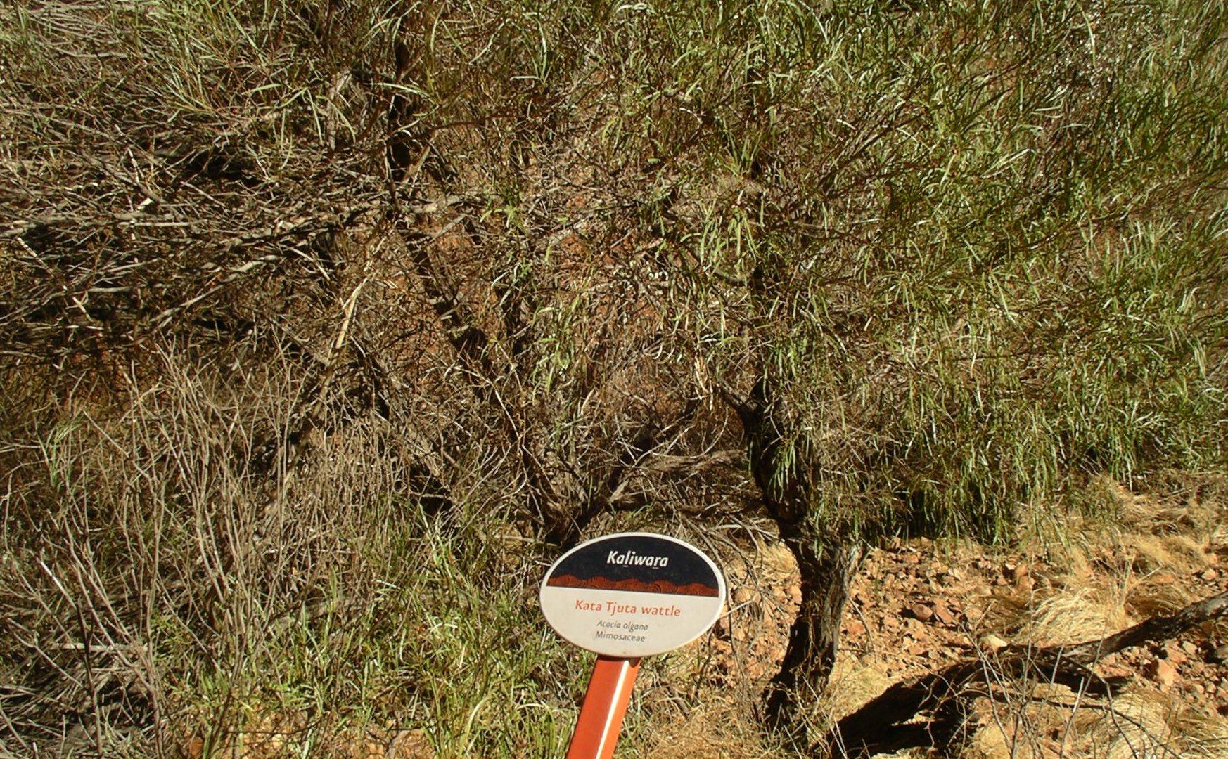 Olga wattle in Kata Tjuta ...